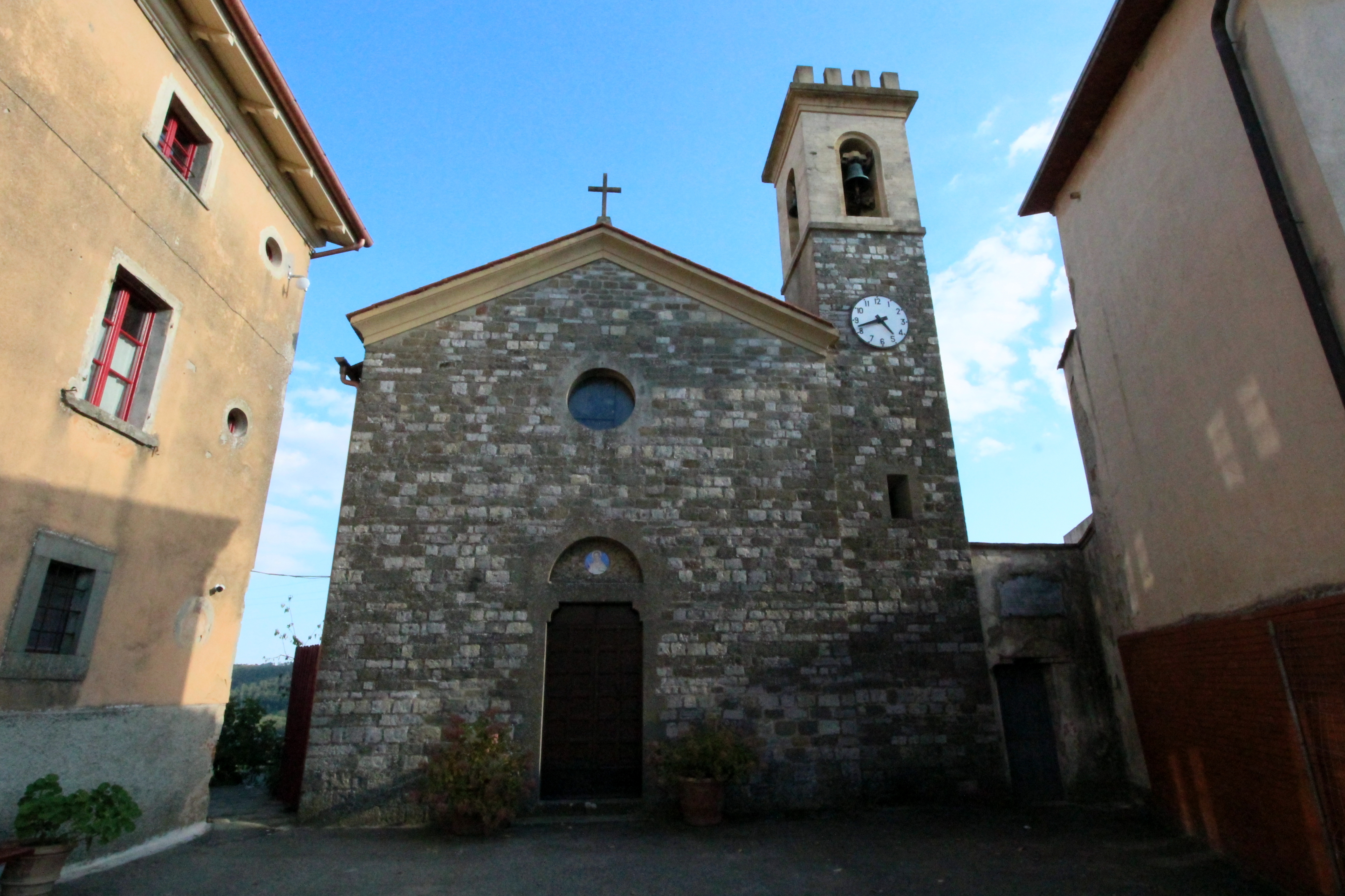 Church Santi Giusto e Clemente a Nusenna, in Nusenna, hamlet of Gaiole in Chianti, Province of Siena, Tuscany, Italy.